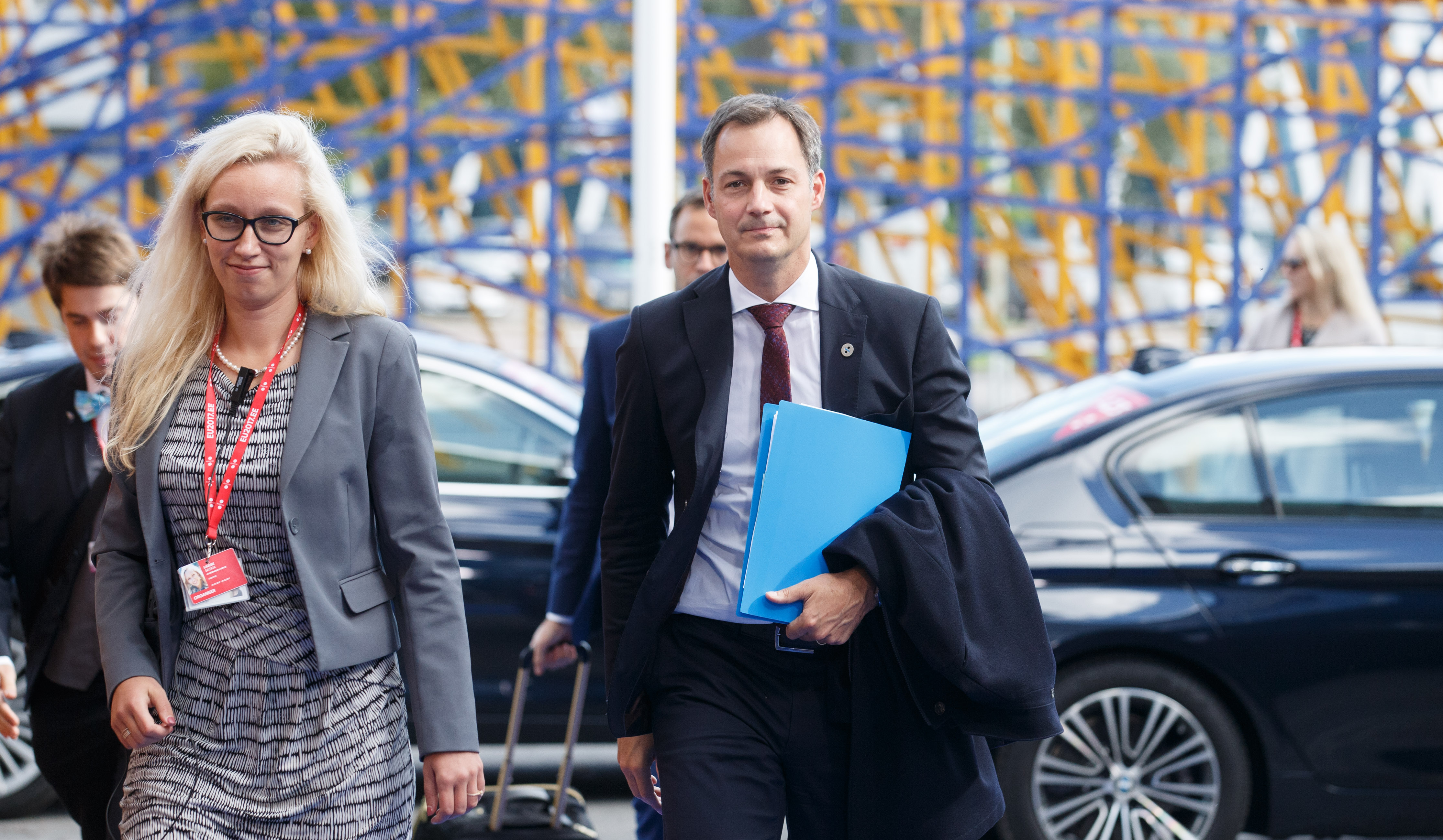 Alexander De Croo, Deputy Prime Minister, Minister of Development Cooperation, Digital Agenda, Telecom and Postal Services, Federal Public Service Foreign Affairs, Belgium Photo: Raul Mee (EU2017EE)